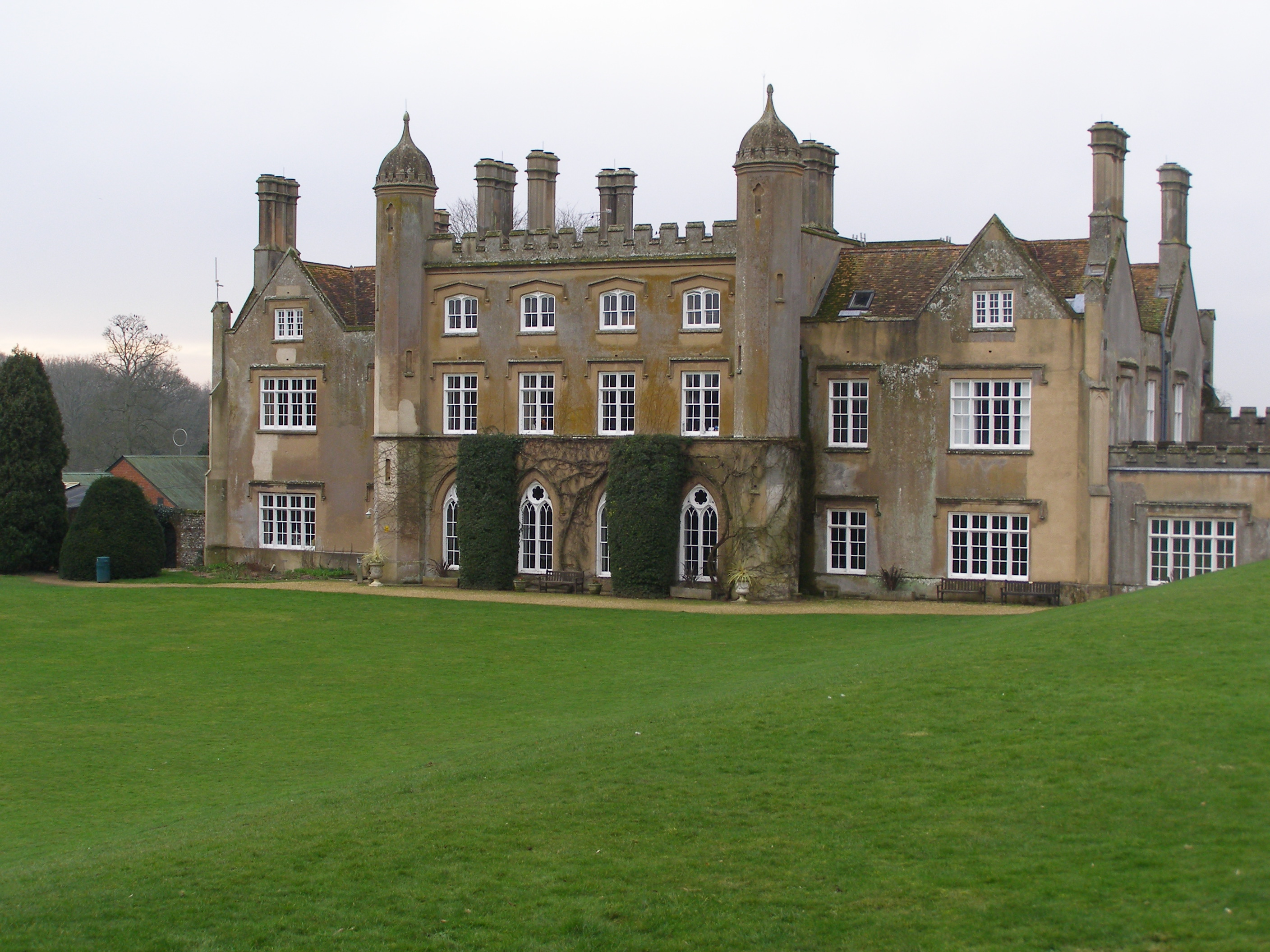 Marwell Hall and garde — in Hampshire, England